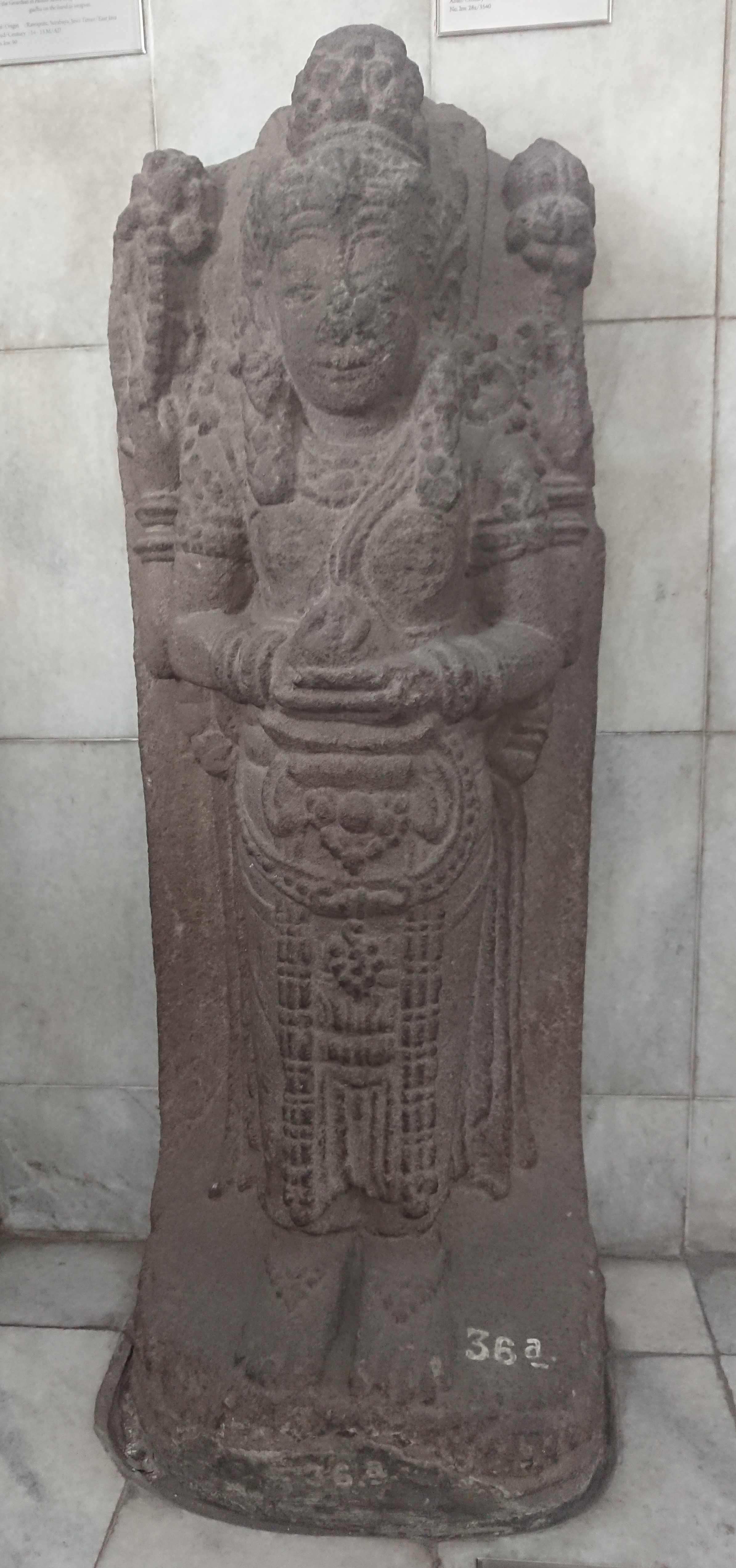 statue at the National Museum of Indonesia, No.3968/36a